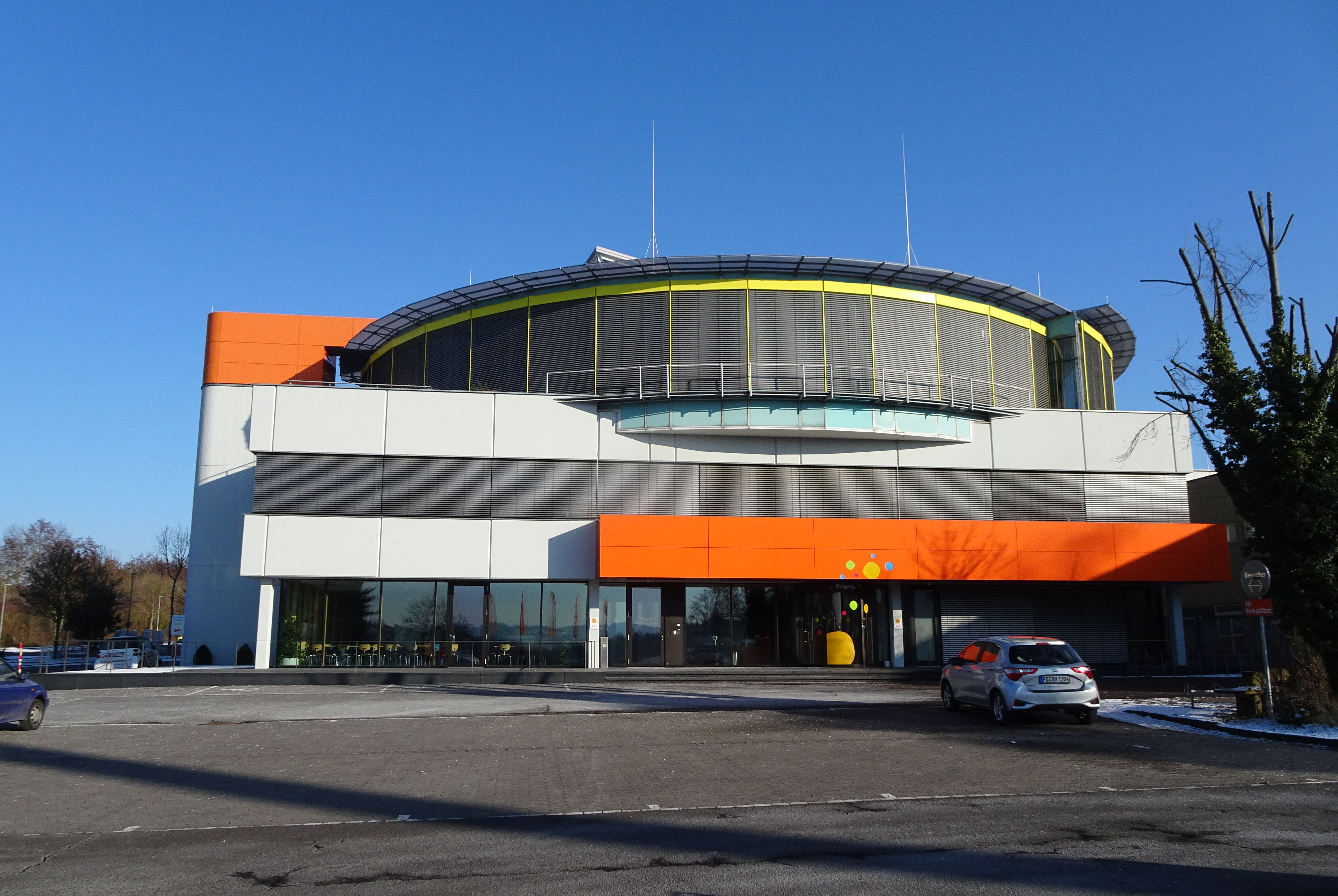 office building in Fulda, Germany